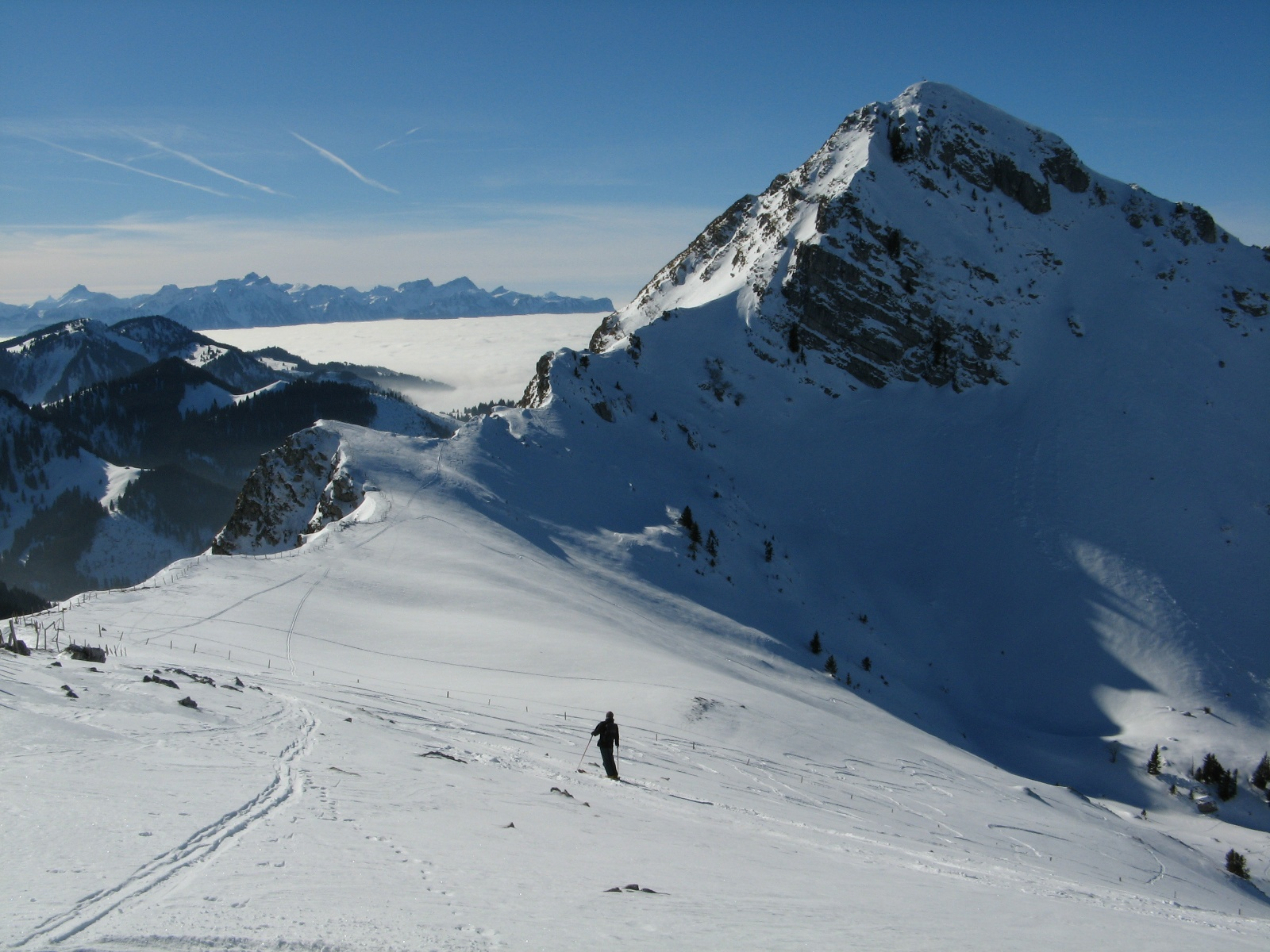 Summit of Teysachaux near the Moleson (Fribourg/Switzerland)